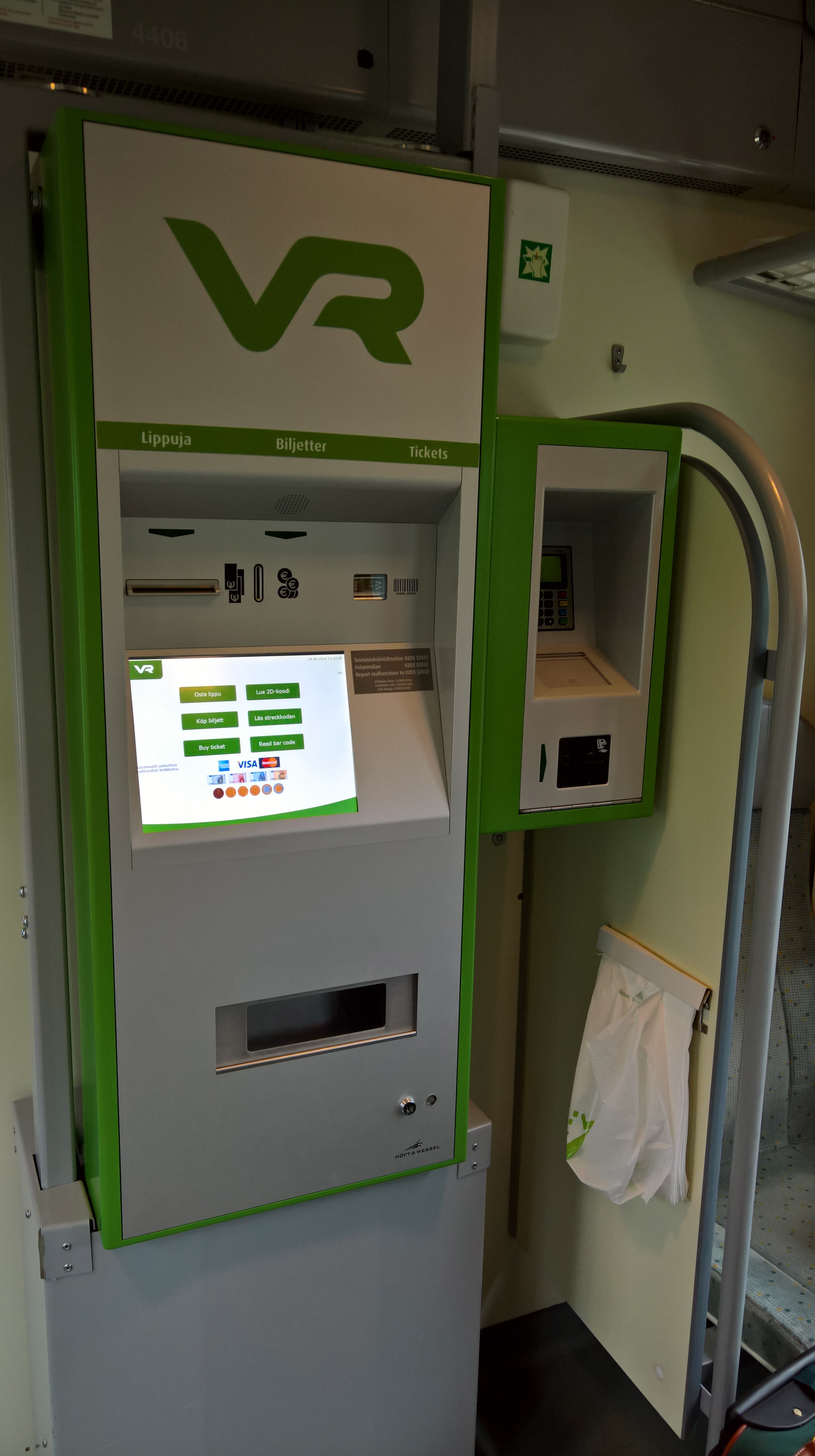 Since June 2016 there have not been any conductors on the regional trains of the Finnish National Railway operator "VR". Instead may passengers without a valid pre-paid ticket buy a ticket on the vending machine onboard.